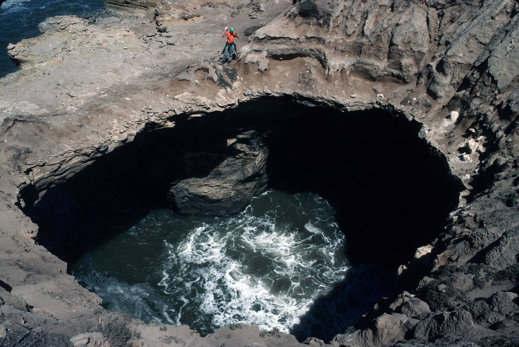 A littoral sinkhole or collapse into a sea cave chamber, in Santa Rosa Island, California.